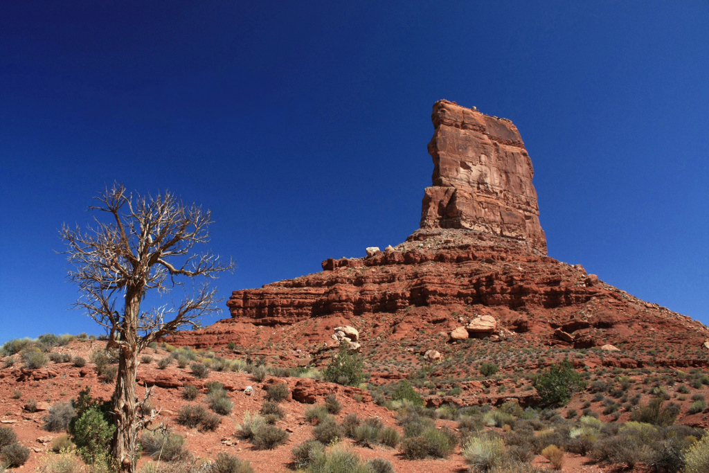 Valley of the Gods, Utah, USA